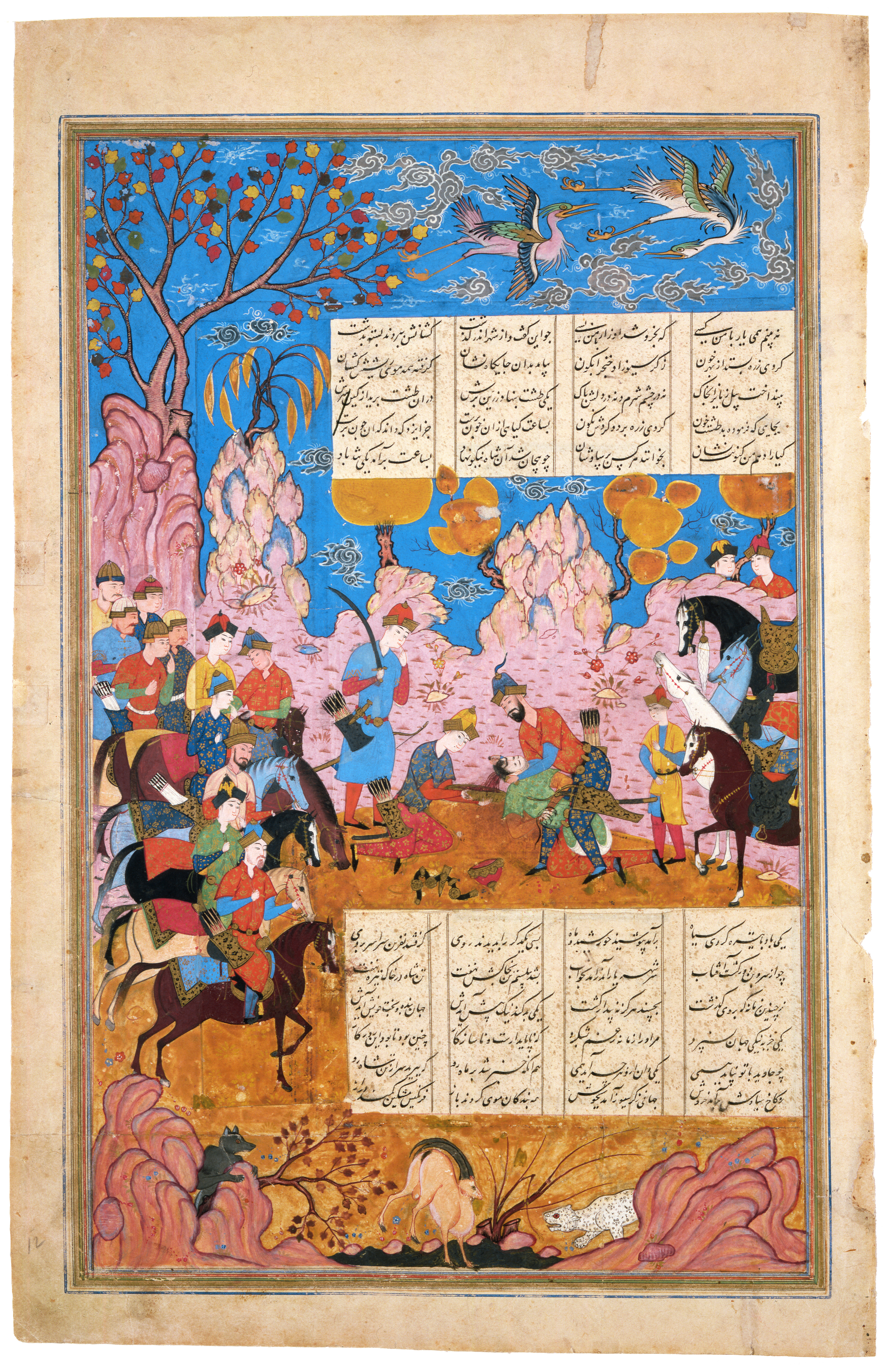 Evil tongues slander good Prince Siyawush at the court of Afrasiyab, his father-in-law and king of Turan. Finally, the king decides to have Siyawush murdered, and also has his daughter Farangis whipped to make her abort the couple’s unborn child. Farangis and her son, Kay Khusraw, miraculously survive, and in time, he revenges his father’s dishonorable death.